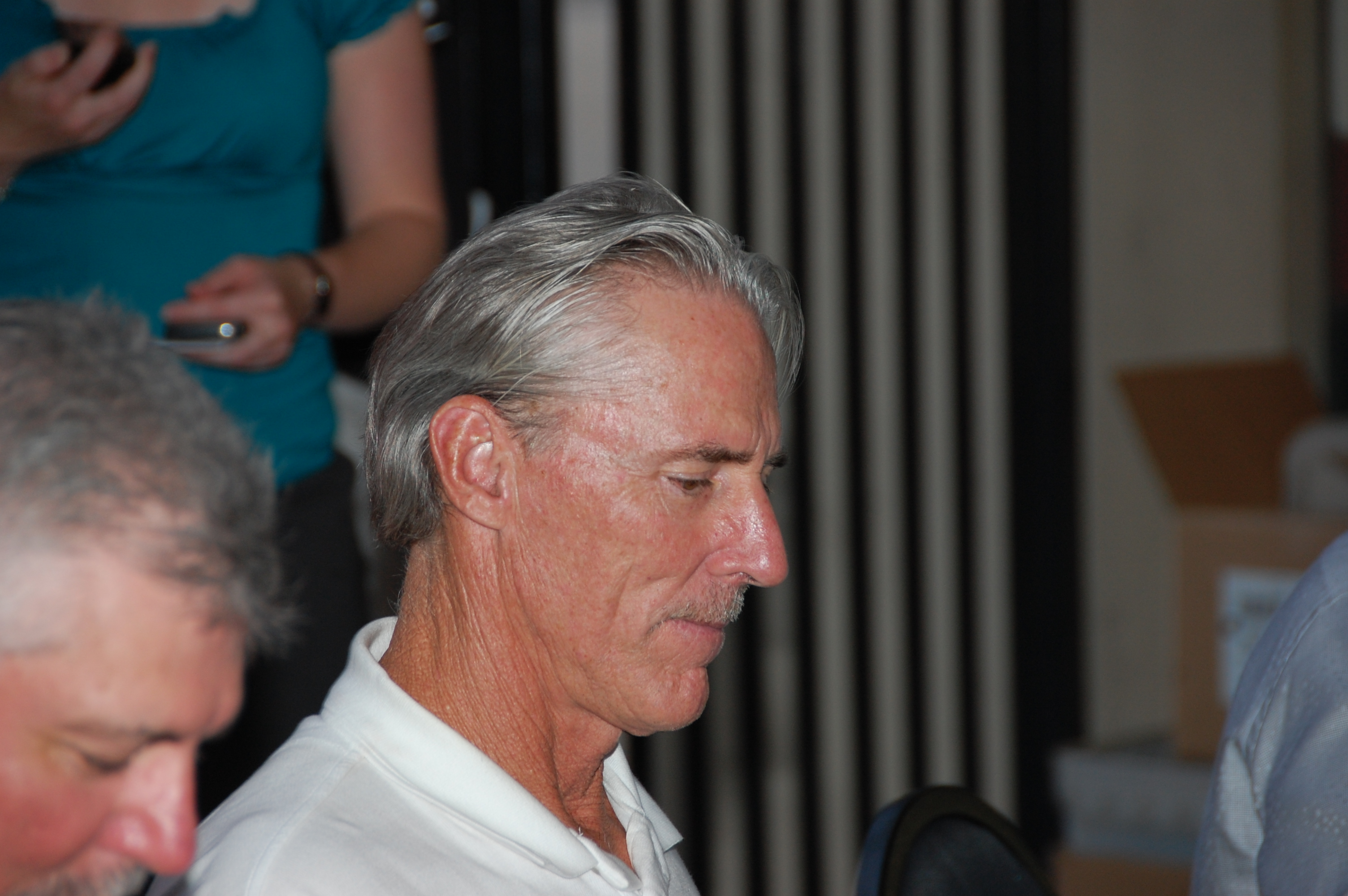 Gary Roenicke at the anniversary of the Orioles 1983 World Series win